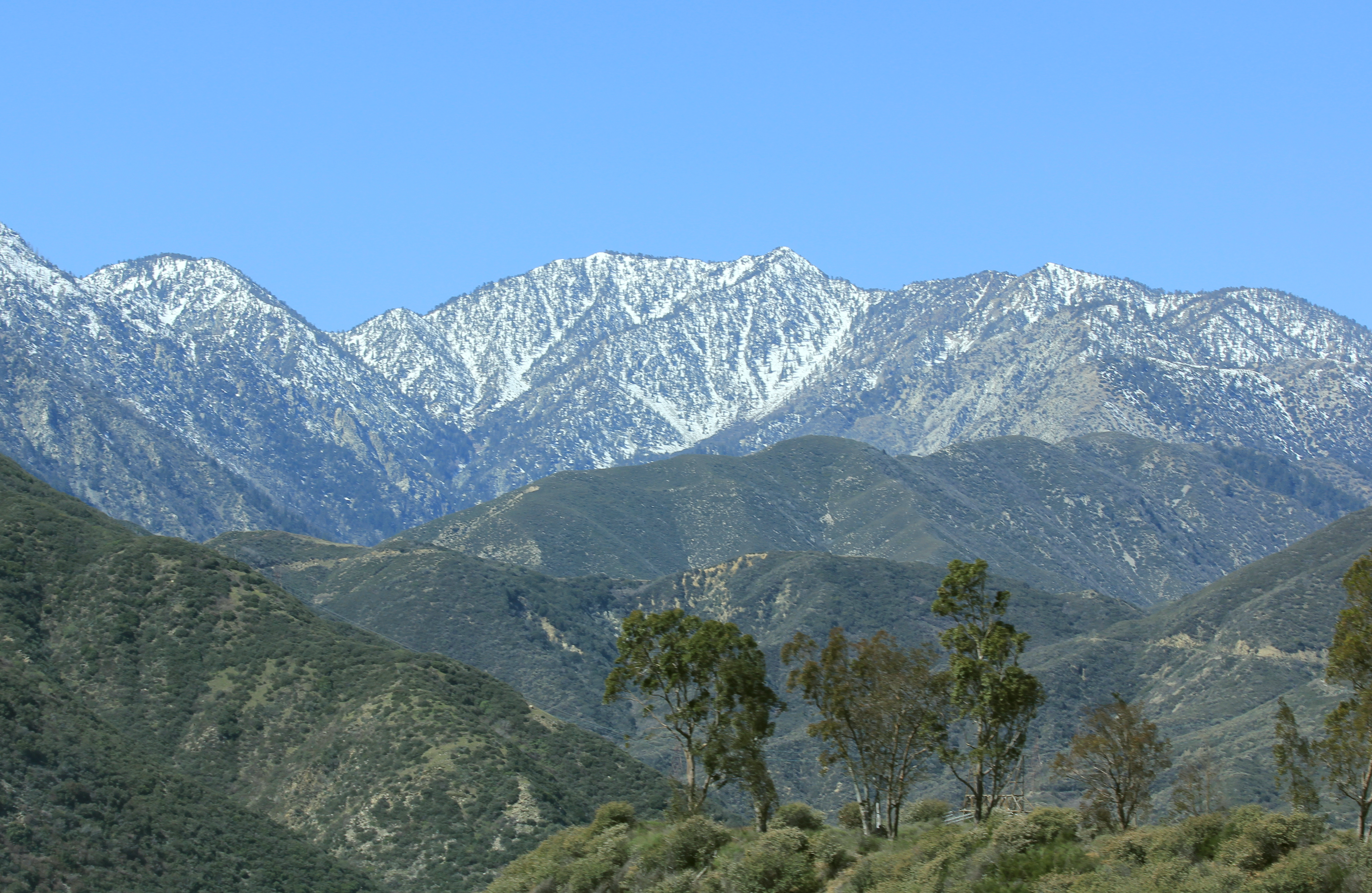 The San Gabriel Mountains — near Cajon Junction, California.